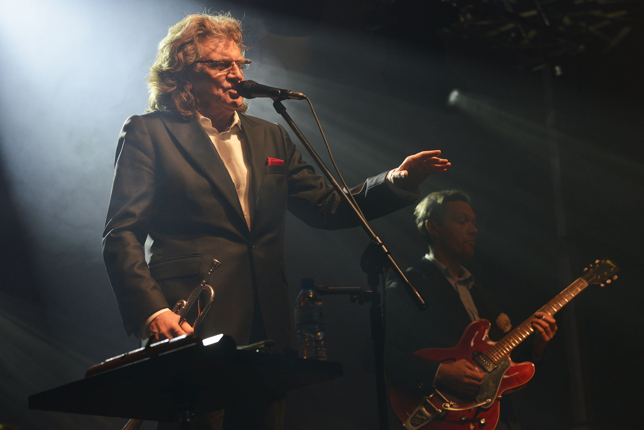 Polish vocalist and musician, Zbigniew Wodecki during concert in Bielsko-Biala, Poland, 2016